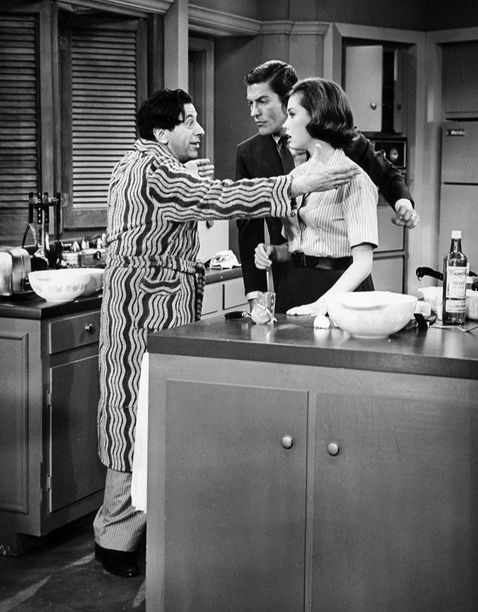 Publicity photo from The Dick Van Dyke Show. Pictured are Buddy (Morey Amsterdam) and Laura (Mary Tyler Moore) and Rob (Dick Van Dyke) Petrie. When Buddy's wife, Pickles, goes out of town, Buddy becomes the Petrie's house guest.